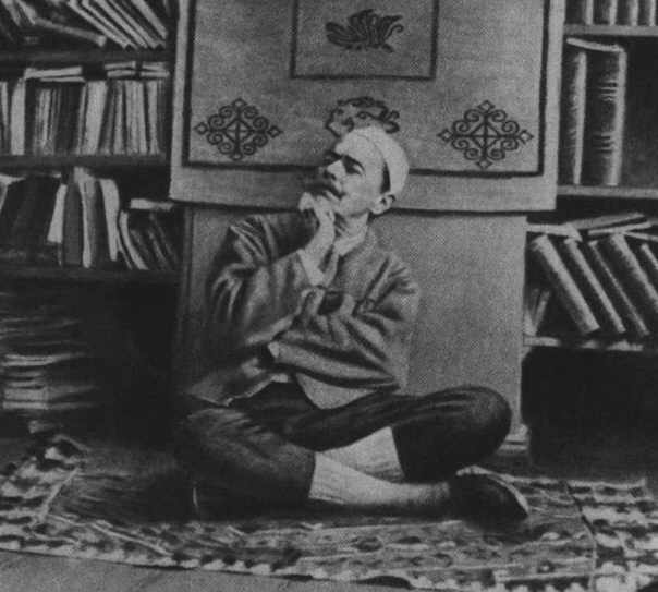 Photograph of Ion Luca Caragiale, Romanian dramatist, in Balkan costume